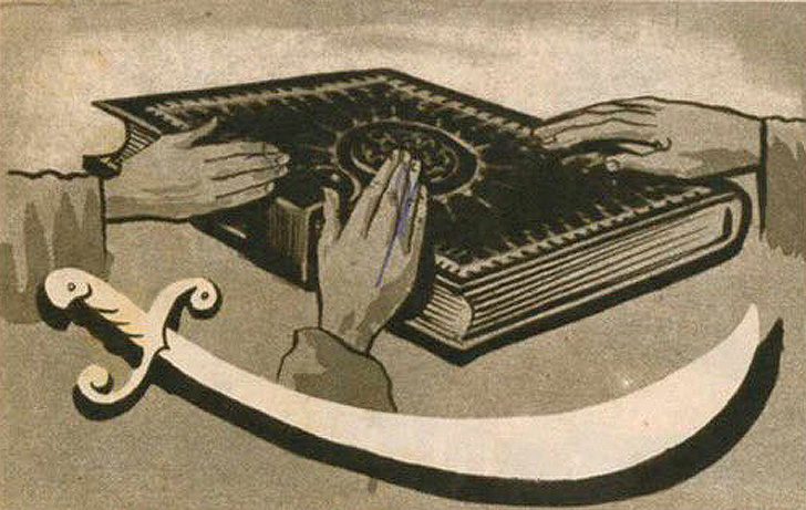 First Saudi State It was established when Muhammad ibn Abd al-Wahhab and Prince Muhammad bin Saud formed an alliance.